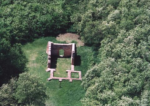 Nyíradony Hungary aerialphotography